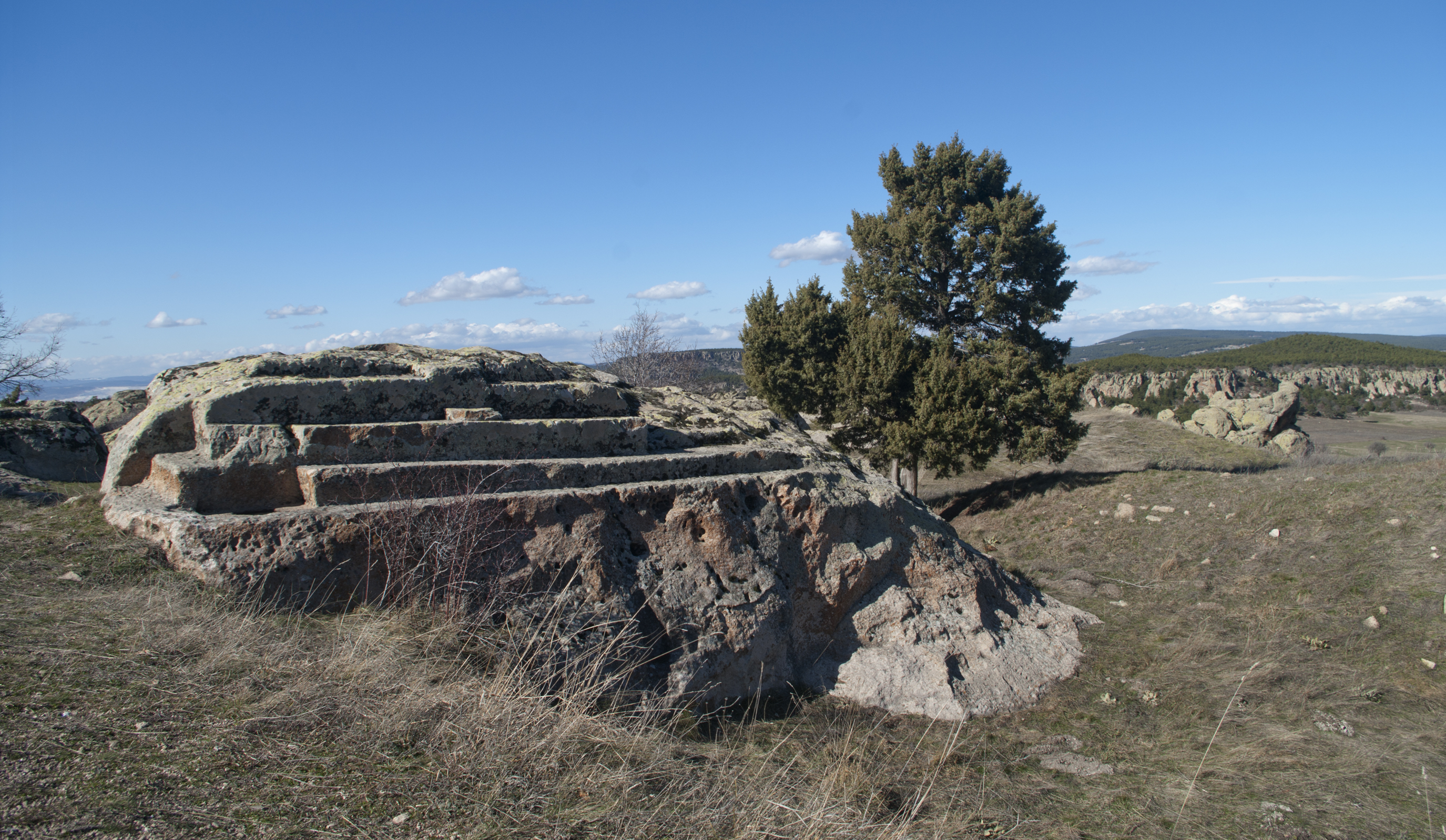 A view of the unfinished Altar of Cybele at Midas ruins in Yazılıkaya village of Han district in Eskişehir, Turkey.